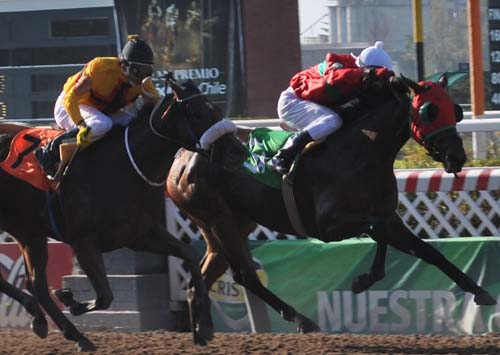 clasico estanislao anguita